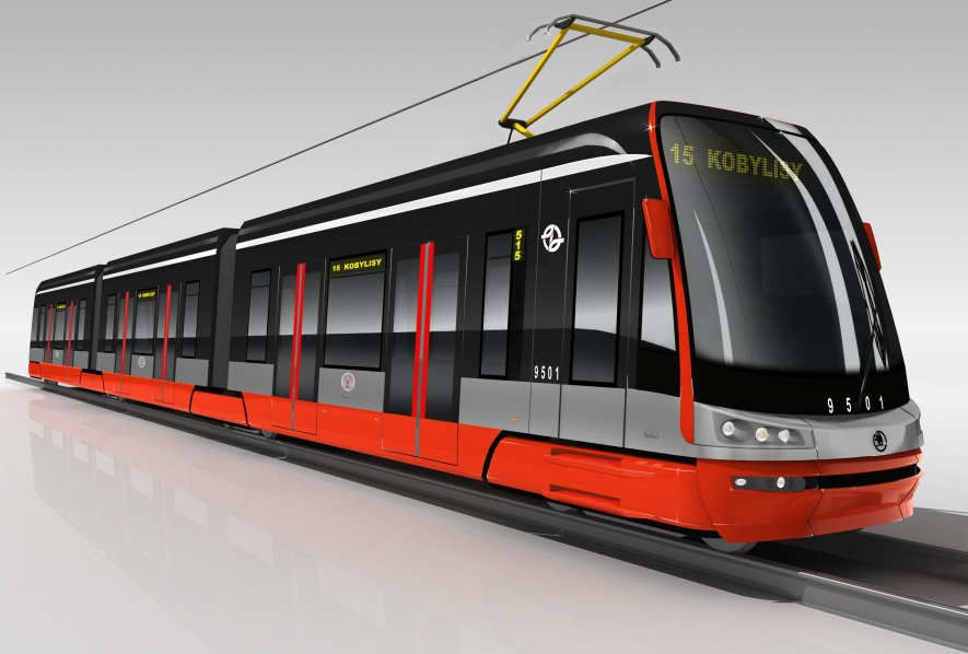 Computer model of a Skoda 15T – ForCity tram.